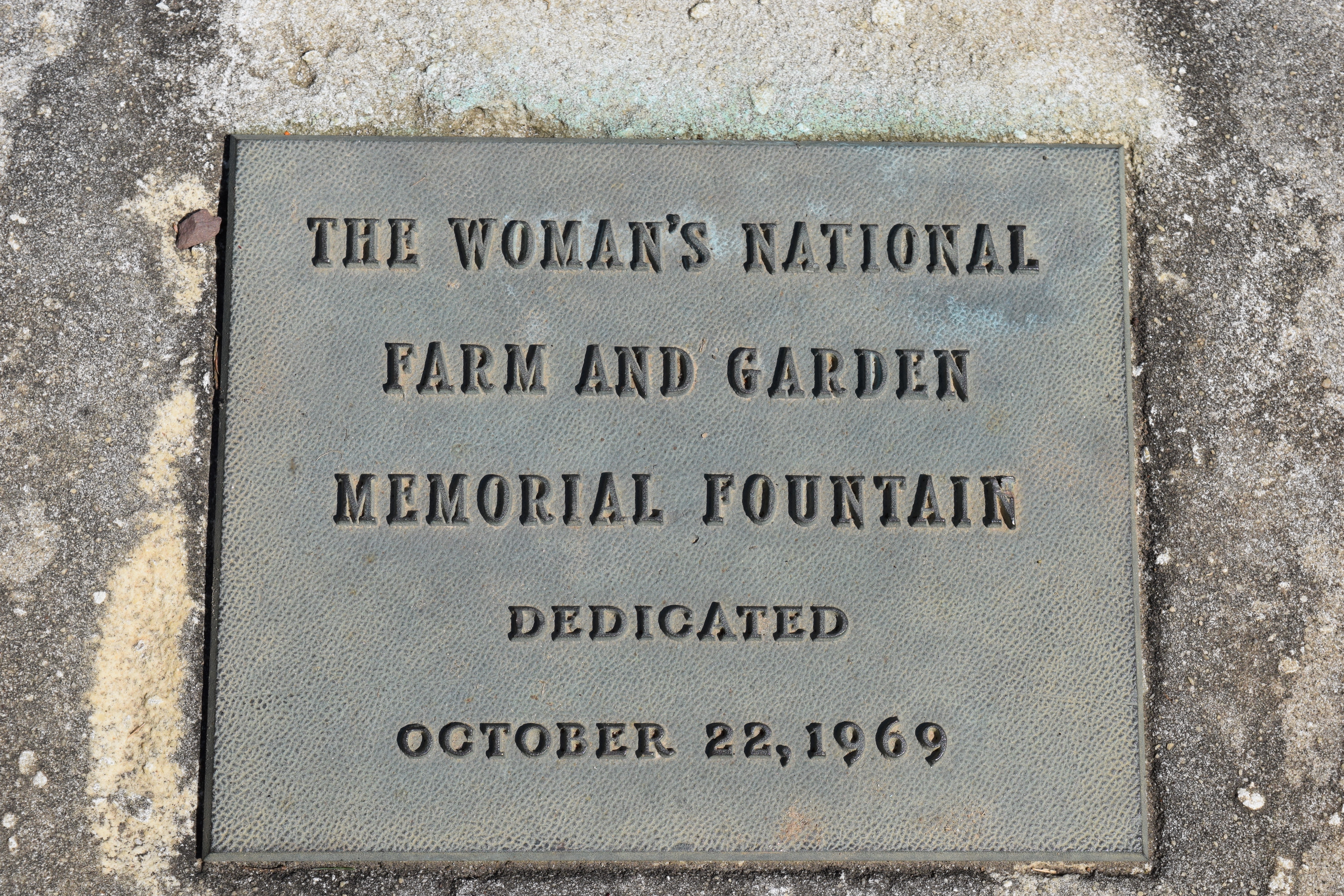 Marker for "The Woman's National Farm and Garden Memorial Fountain/Dedicated October 22, 1969" National Arboretum Dogwood Collection, Washington, D.C.